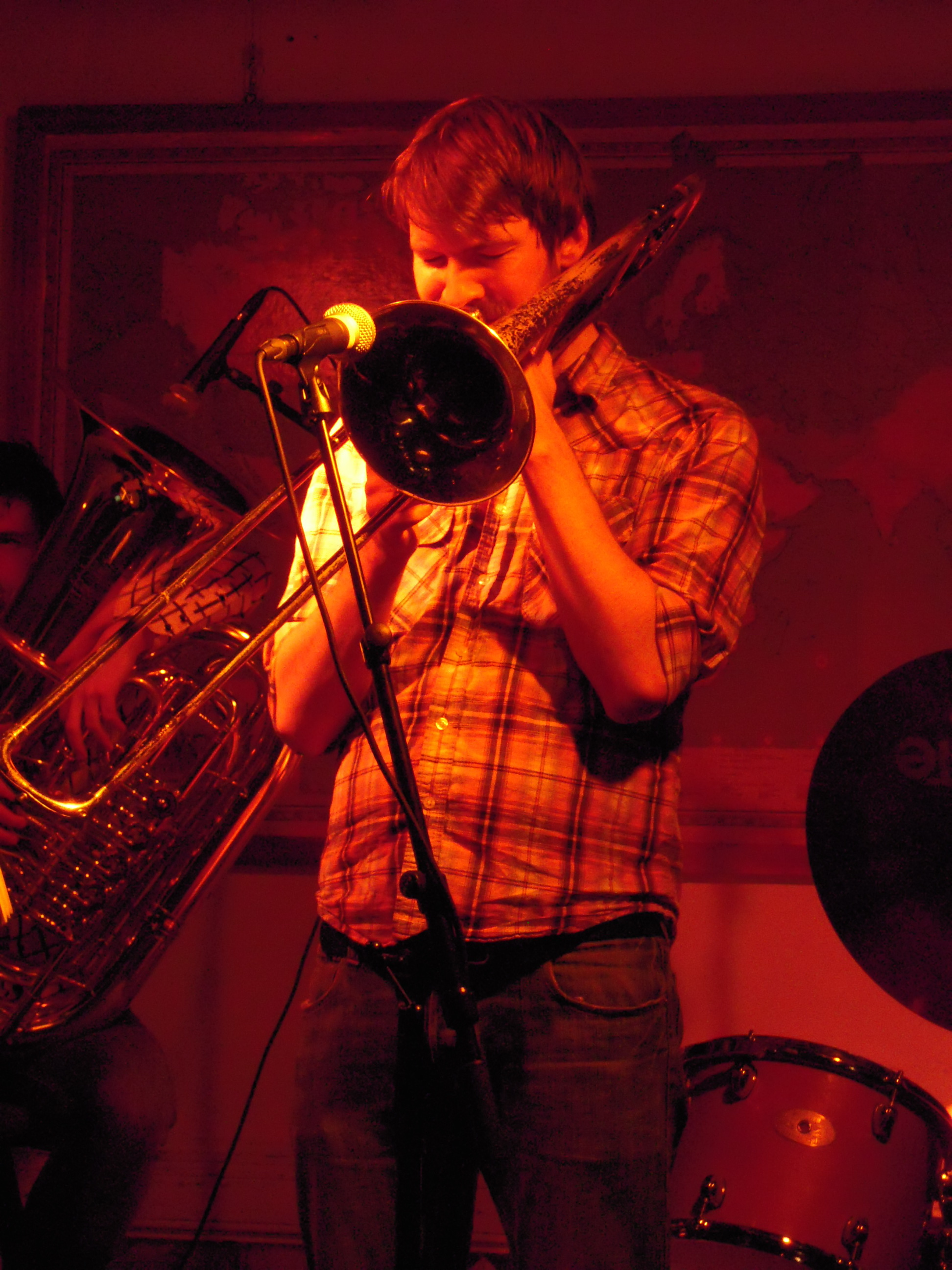 Erik Johannessen plays trombone at MIR